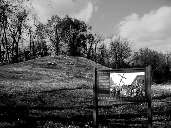 A photo of the main mound at the Parkin Site in Arkansas.